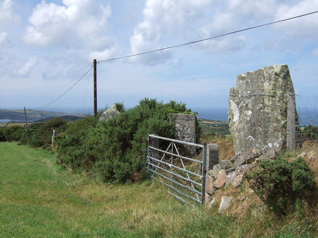 Parc y Meirw megalithic alignment. The picture shows the remaining 4 upright stones (one broken-off forms a gatepost). There is a horizontal one at the foot of the telegraph pole and further down the road an enormous recumbent stone can be seen buried in the bank. It is not clear how many more there originally were before they became part of the field boundary. There are good sightlines to Garn Fawr on Mynydd Dinas, Garn Fawr west of Strumble Head and even, it is said, to the Wicklows in Ireland. The name means Field of the Dead and there are a number of legends associated with this impressive site.